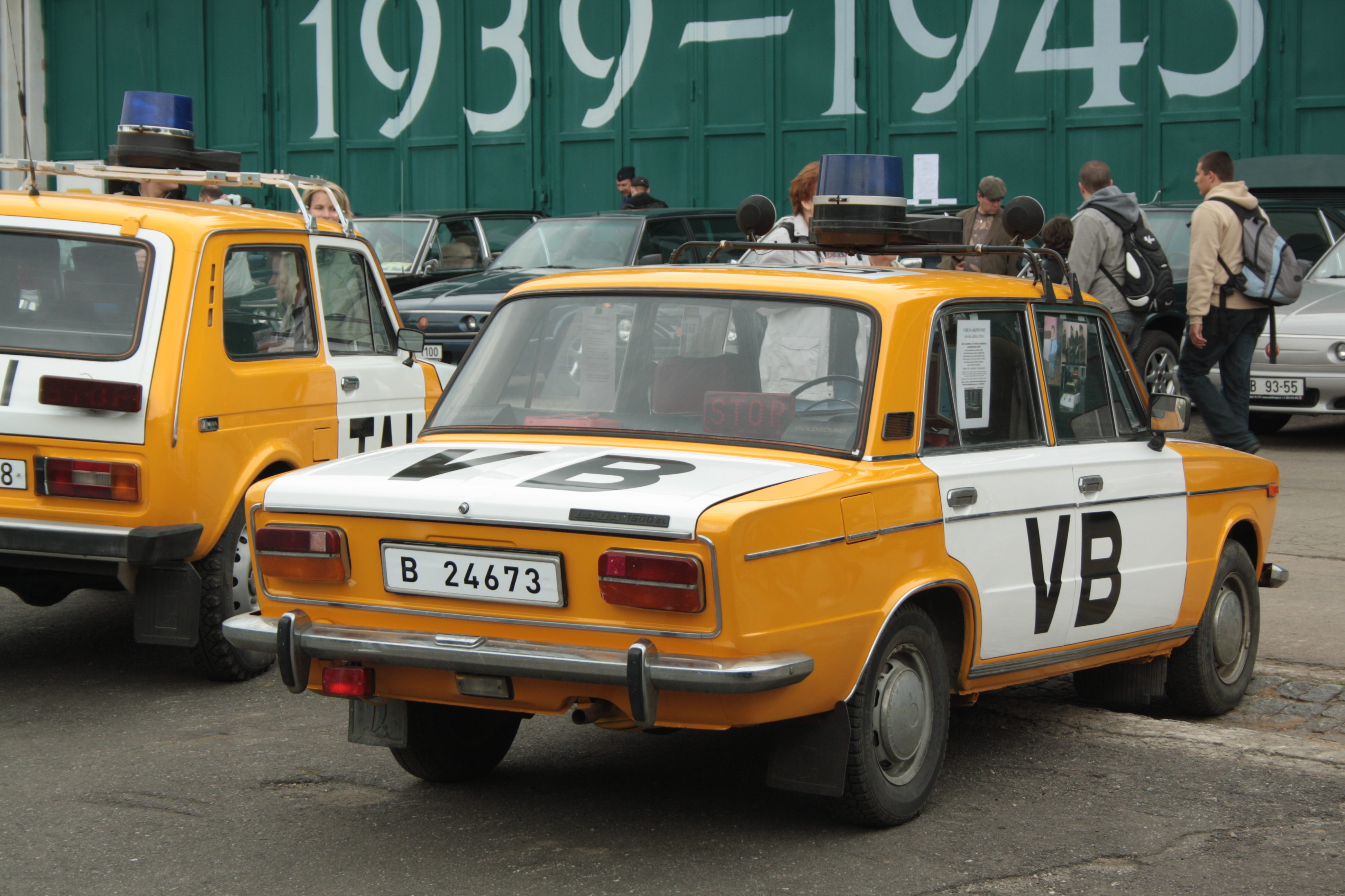 Veřejná bezpečnost (Public Security, a socialist police) and Tanková a automobilní inspekce (Tank and Automobile Inspection) cars during exhibition of old cars and buses in Lešany Military Museum - Opening show of the 15th season. Lešany, Central Bohemian Region, CZ. On the left, there is a part of VAZ 2121 (Lada Niva 1600), on the right, there is VAZ 2103 (Lada 1500 SL). This photograph was taken with a DSLR from WMCZ's Camera grant.